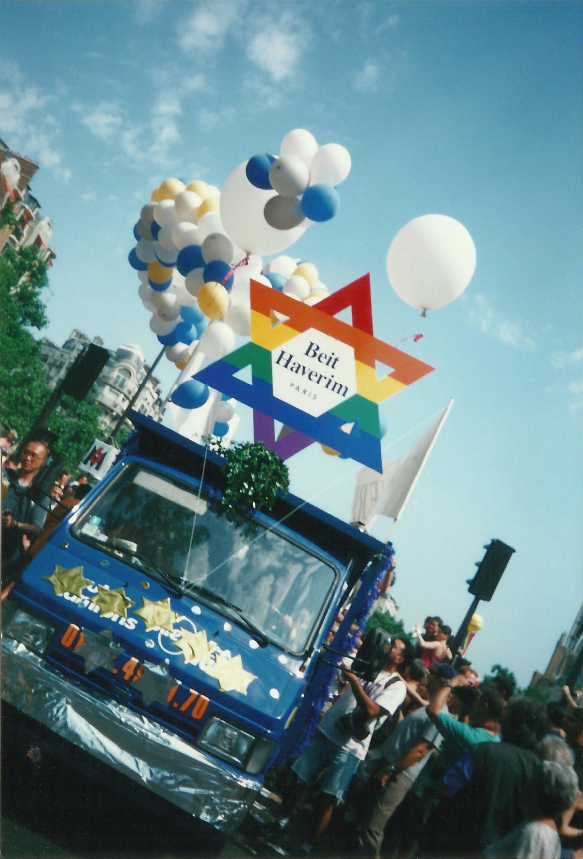 Front shot of the cart of the France LGBT Jews organization.